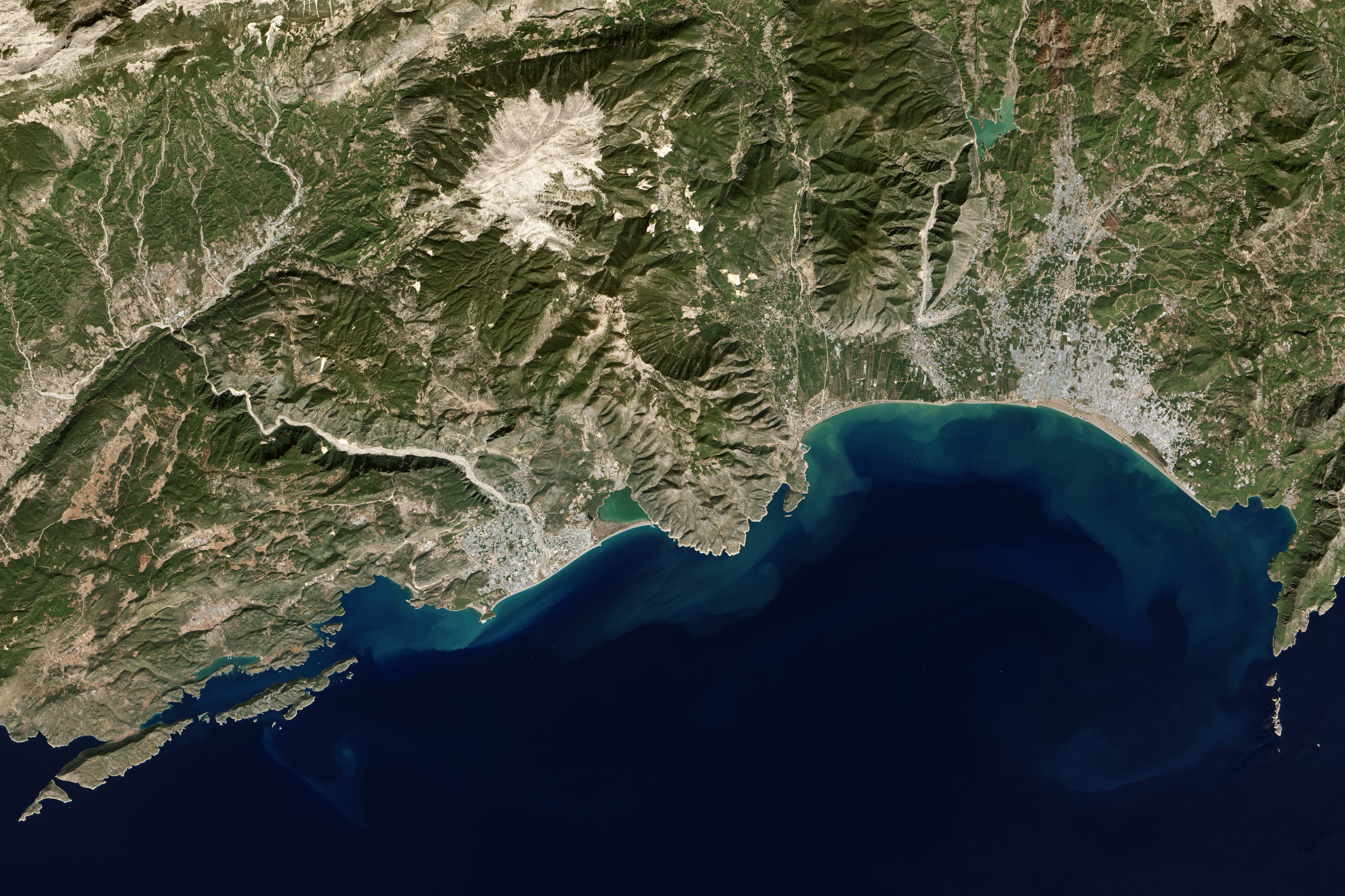 2013 satellite picture of Demre, Turkey